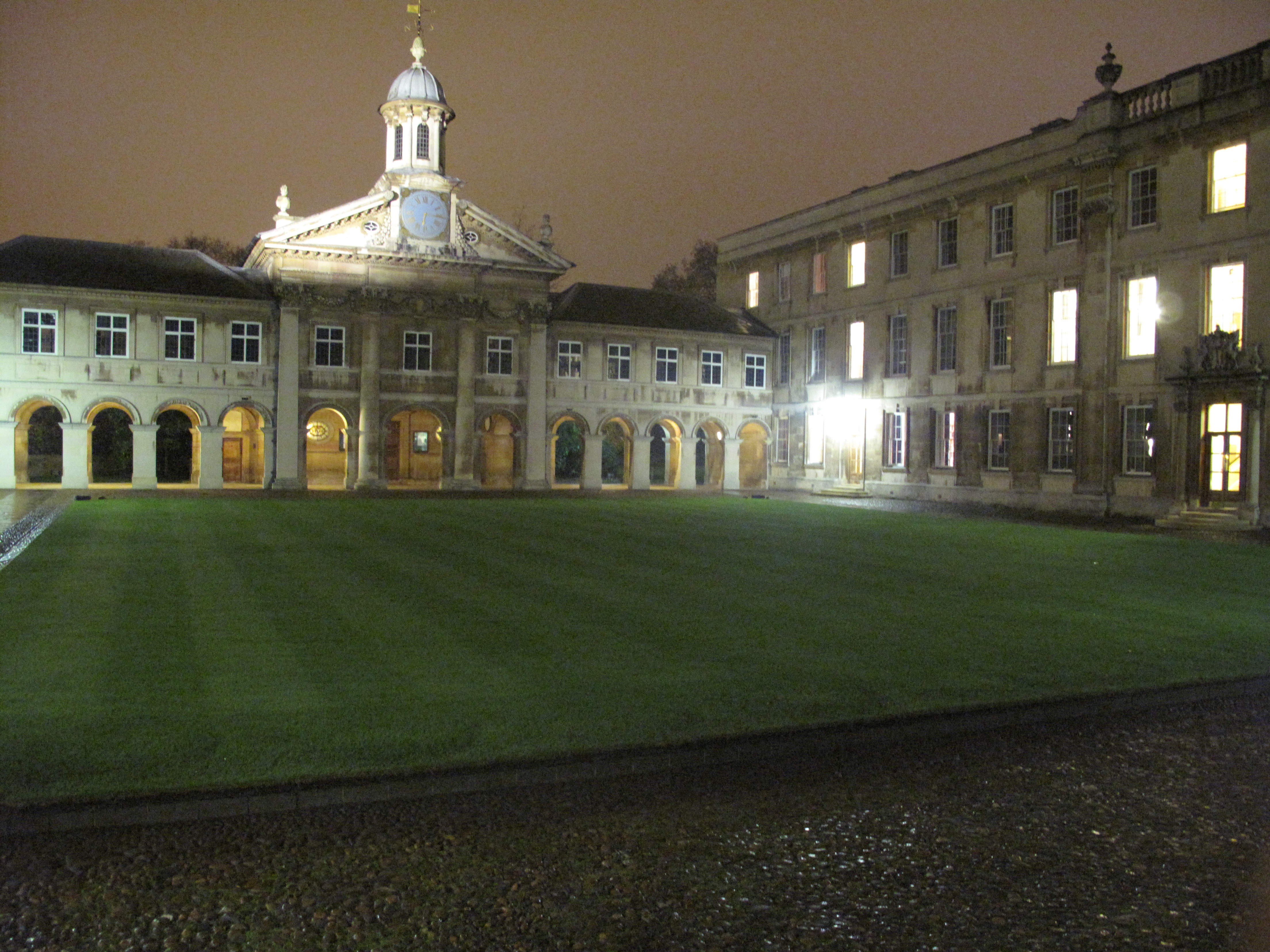 at the COMMUNIA working group meeting on public domain calculators at Emmanuel College in Cambridge, UK